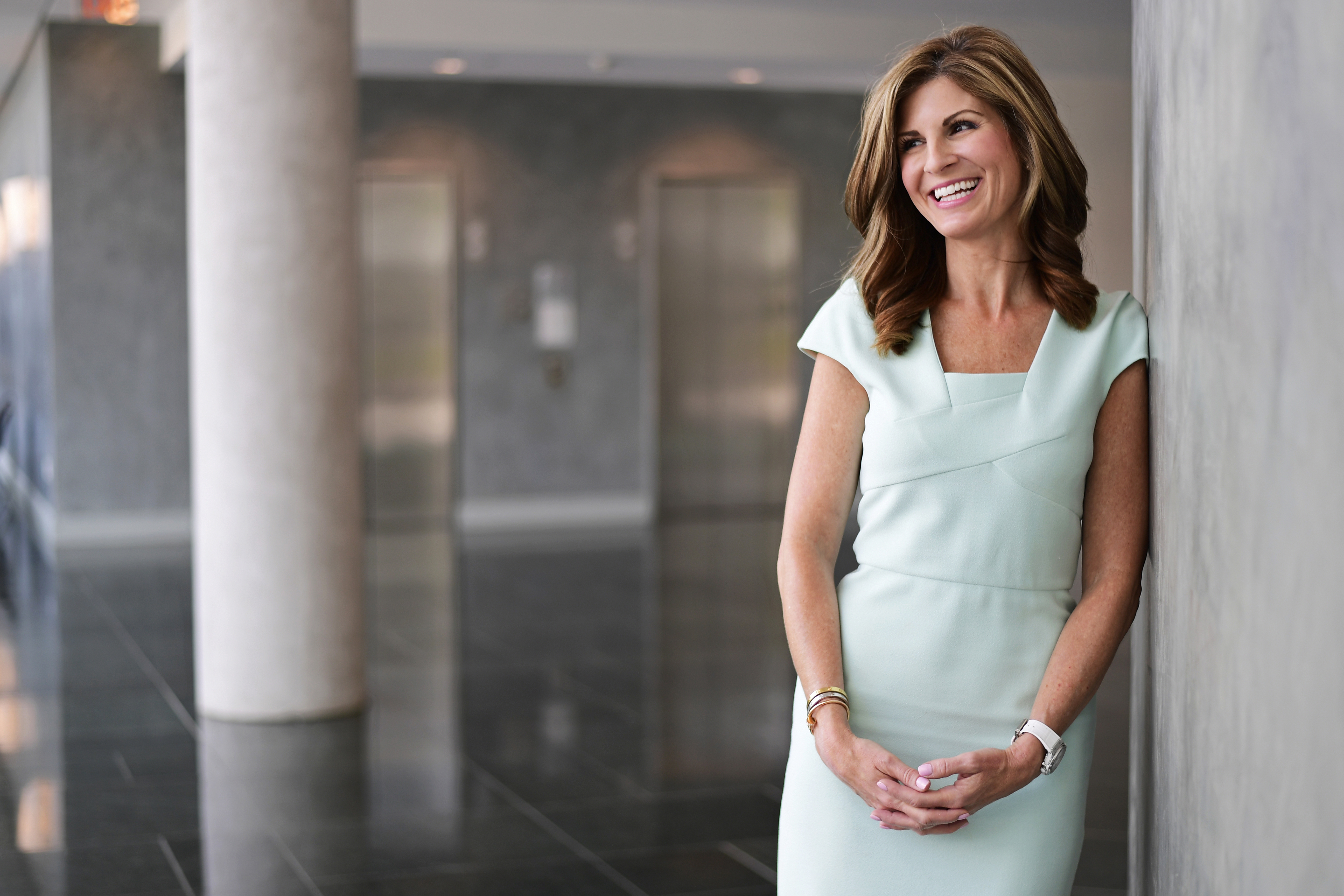 Jennifer Morgan, SAP Co-CEO, is shown in portrait Tuesday, Aug. 1, 2017 at SAP North America headquarters in Newtown Square, Pa. Morgan is a member of the company's executive board. Morgan has been with the software company since 2004.